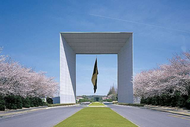 NUCB Millennium Gate